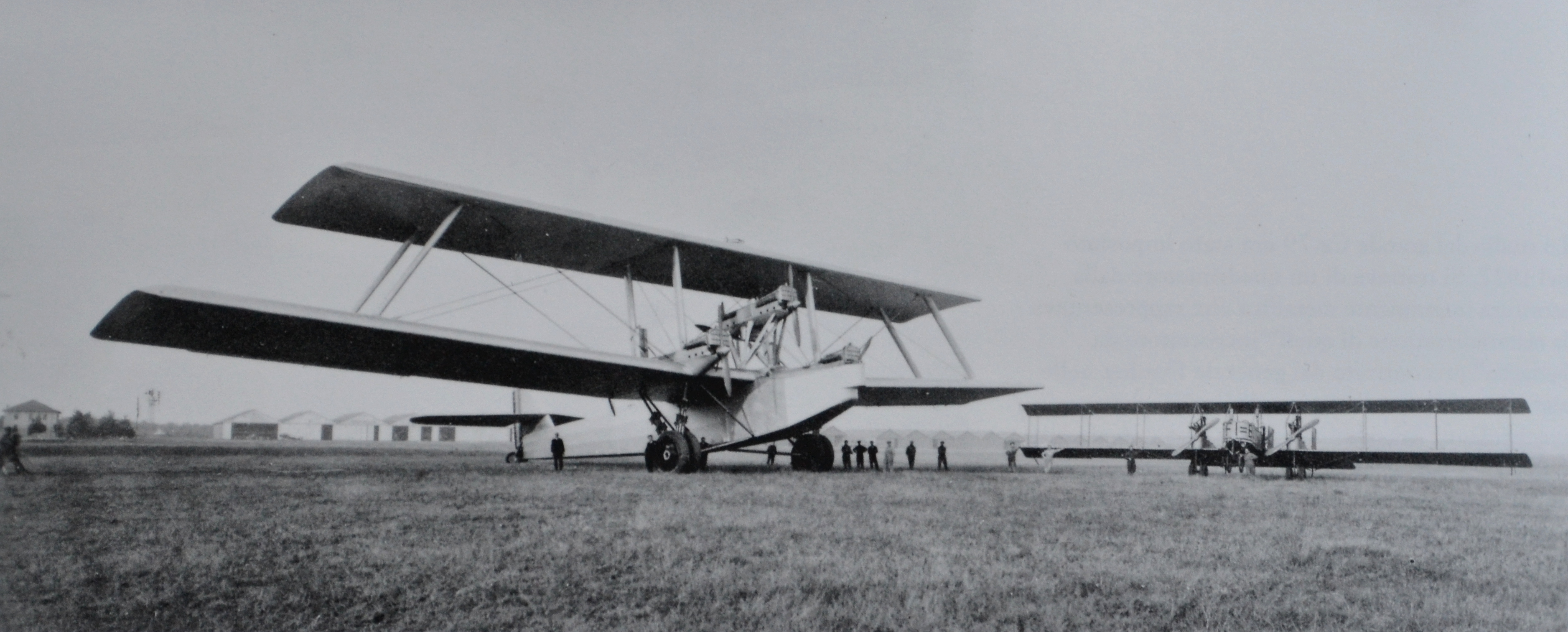 The enormous Caproni Ca.90 prototype (in 1929, the largest aircraft in the world) close to a relatively small Caproni Ca.36.